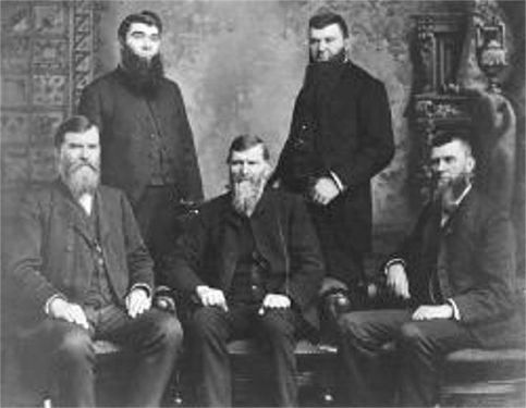 The Studebaker brothers—founders of what would become the Studebaker Corporation. From left to right, (standing) Peter and Jacob; (seated) Clem, Henry and John M. The five brothers were, in order of birth: Henry (1826-1895), Clement (1831-1901), John Mohler (1833-1917), Peter Everst (1836-1897), Jacob Franklin (1844-1887). Their father was named John (1799-1877), their mother Rebecca (née Mohler). They had five sisters. There are other photos of John M. and Clement here. They and the other brothers in the photograph have also been identified from named photographs taken in 1902 for the company's golden anniversary, and republished in Longstreet (1952)[1]:(after p.42). On the same page is a list of the brothers' dates of birth and death. The 1919 history published by Erskine[2] contains photos of John Studebaker (Snr); his wife Rebecca Mohler (1802-1887); and the five sons, plus directors Frederick Samuel Fish and Henry Goldman. ↑ Longstreet, Stephen A Century on Wheels: The Story of Studebaker, Category:New York: Henry Holt and Company, pp. 121 1st edn., 1952 ↑ Erskine A R History of the Studebaker Corporation, South Bend 1918 (online excerpt at Google Books)